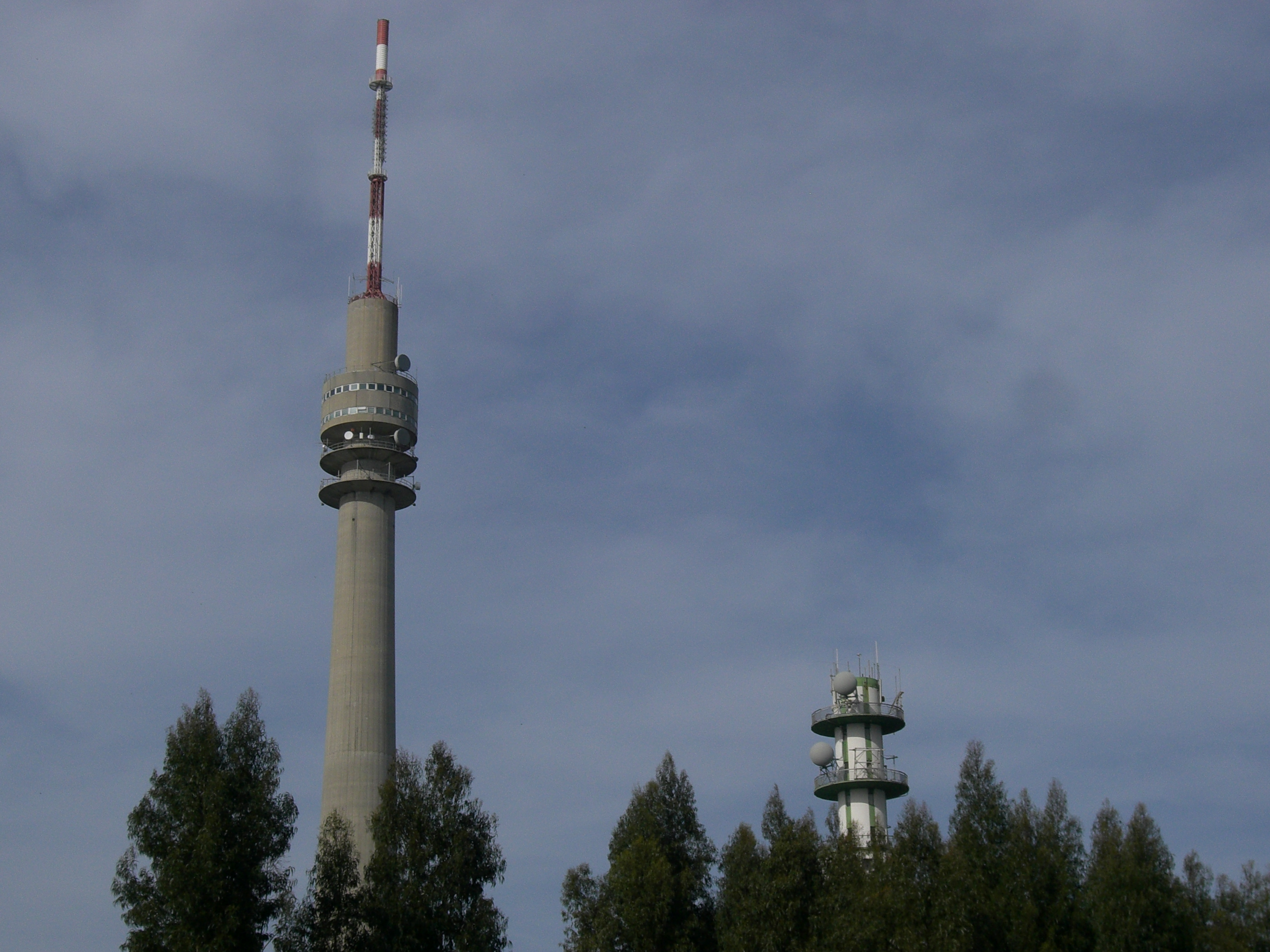 Vila Nova de Gaia, Portugal